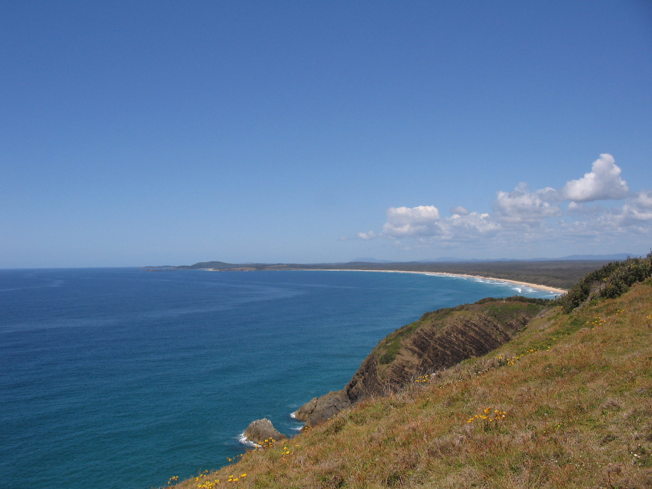 Crescent Head #04 taken on the Monday, 19th October 2009 at 11:45am.